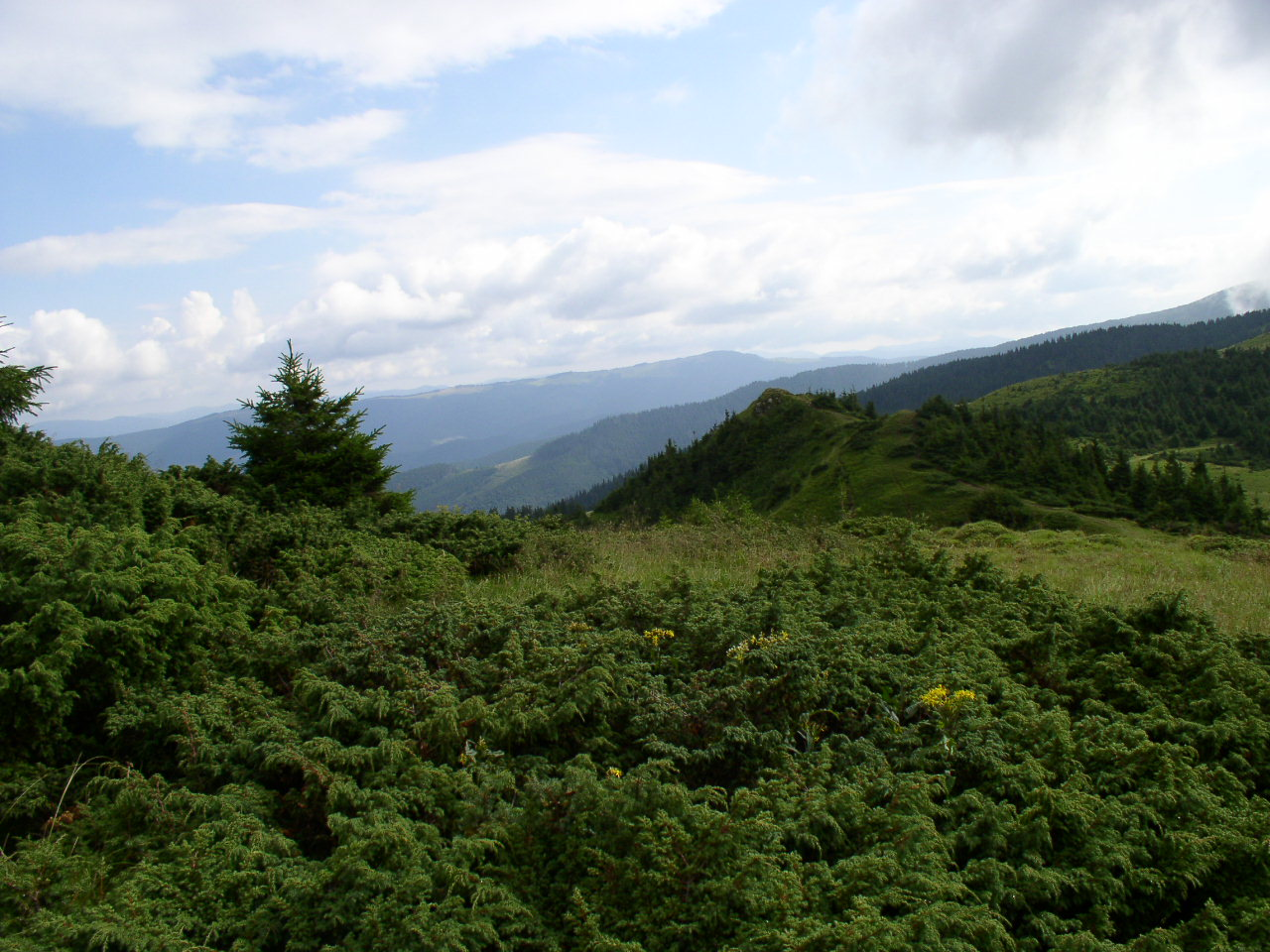 Chornohora range. Carpathian Mountains, Ukraine. Low shrubs are Juniperus communis subsp. alpina; trees in middle distance are Picea abies.